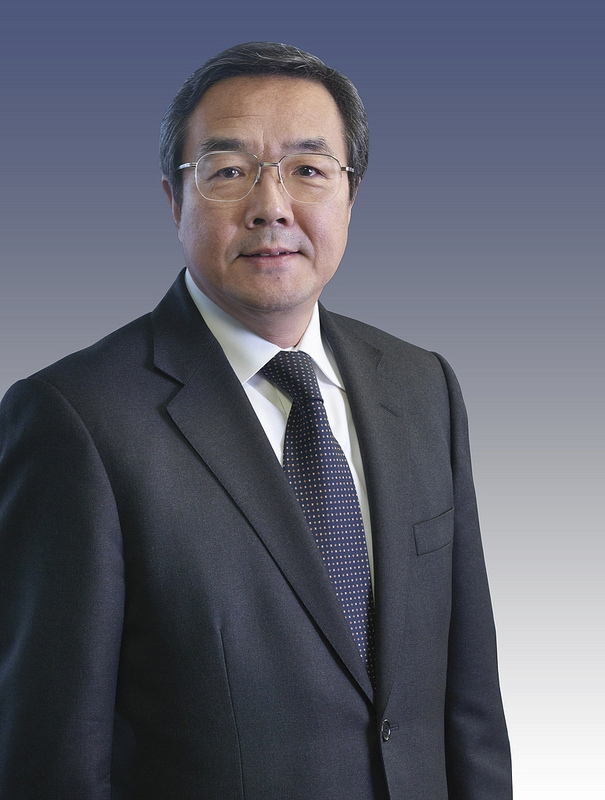 Koji Sekimizu (born 1953), secretary-general of International Maritime Organization